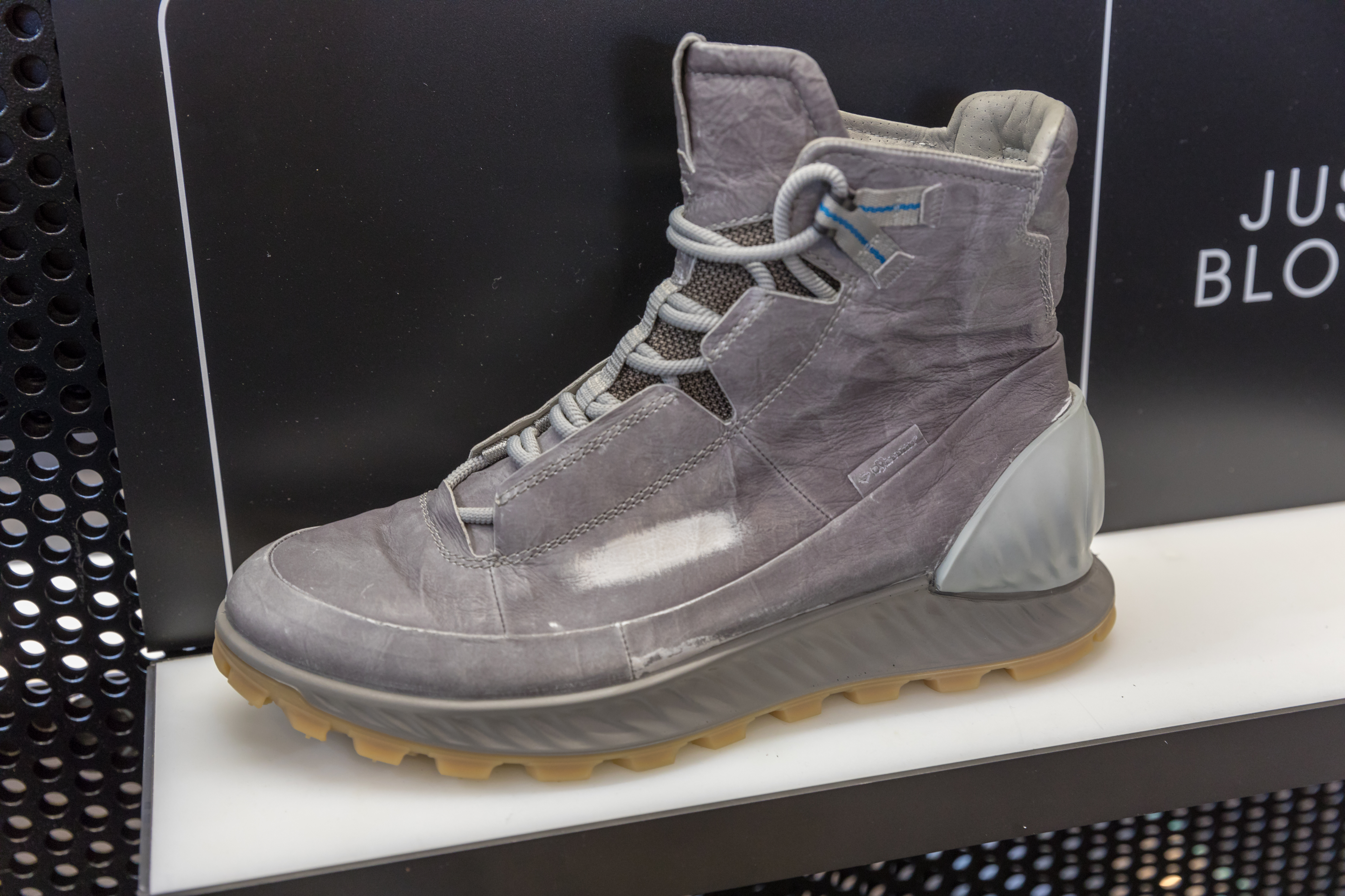 OutDoor 2018